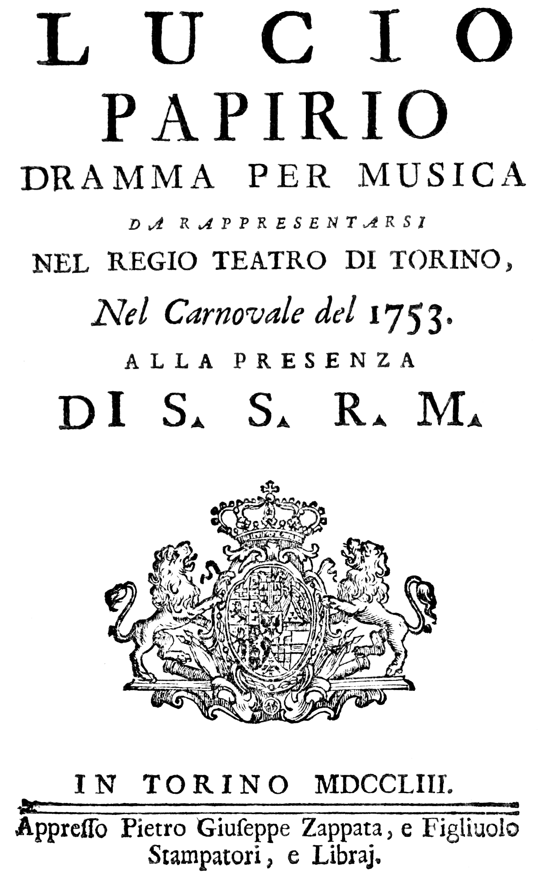 Ignazio Balbi - Lucio Papirio - title page of the libretto - Torino 1752